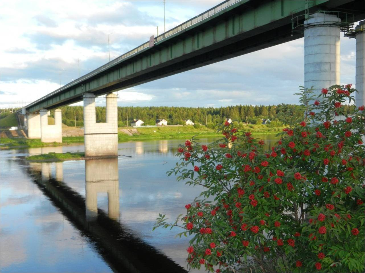 The Bridge over the Sukhona in Totma